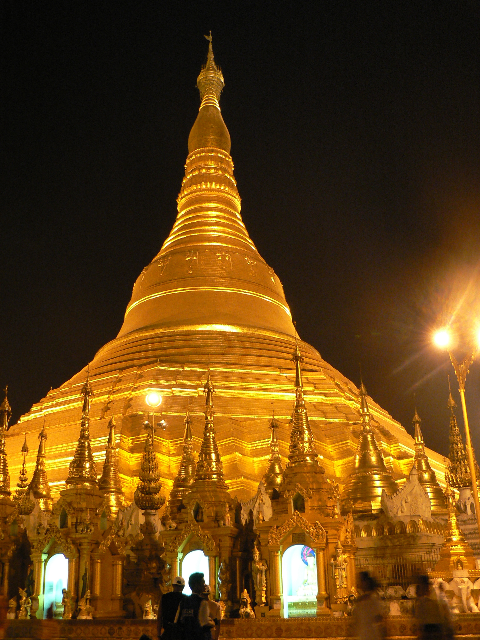 Shwedagon pagoda at night, Yangon, Myammar